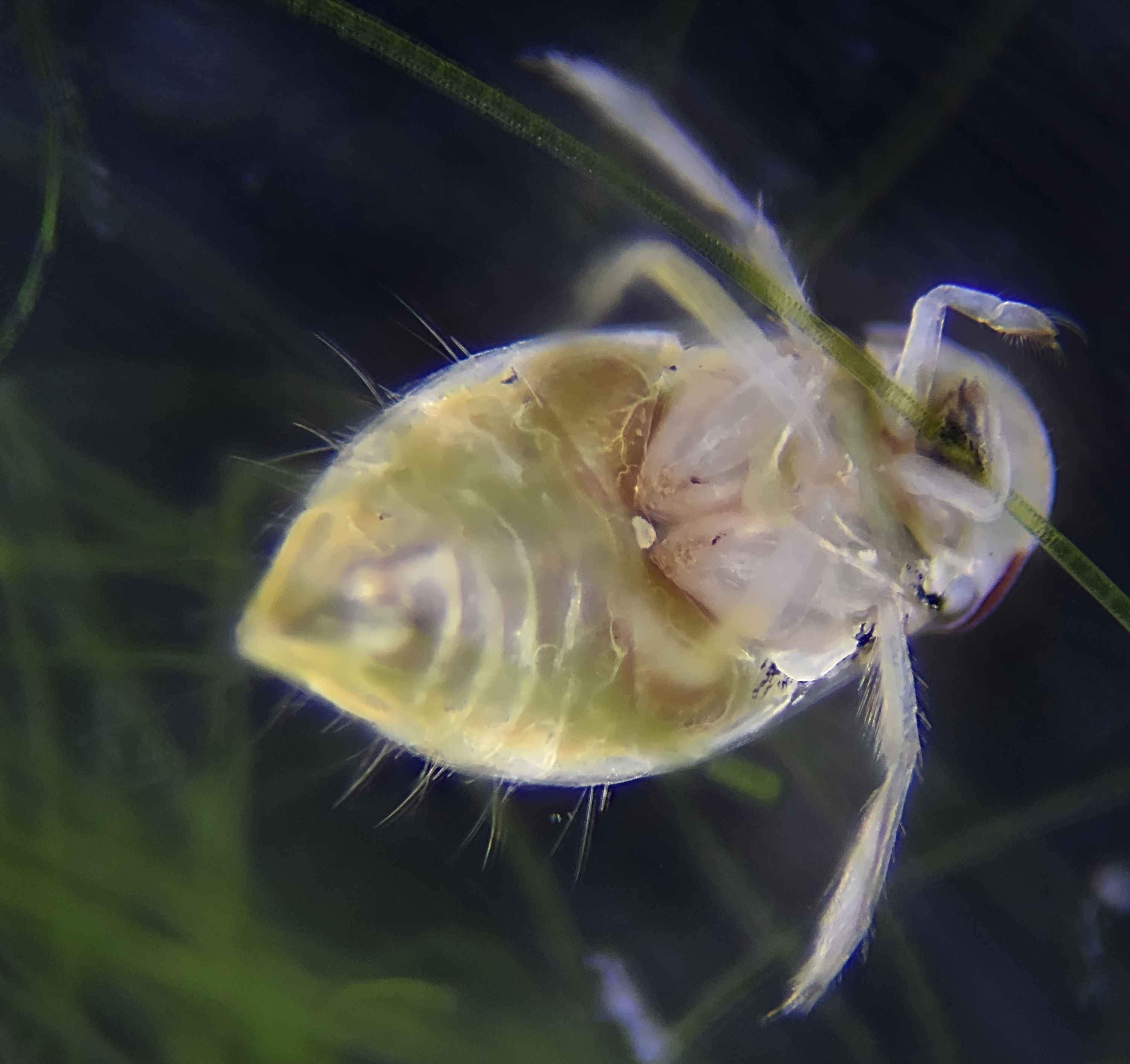 Focus stack of ventral view of a live Micronecta scholtzi